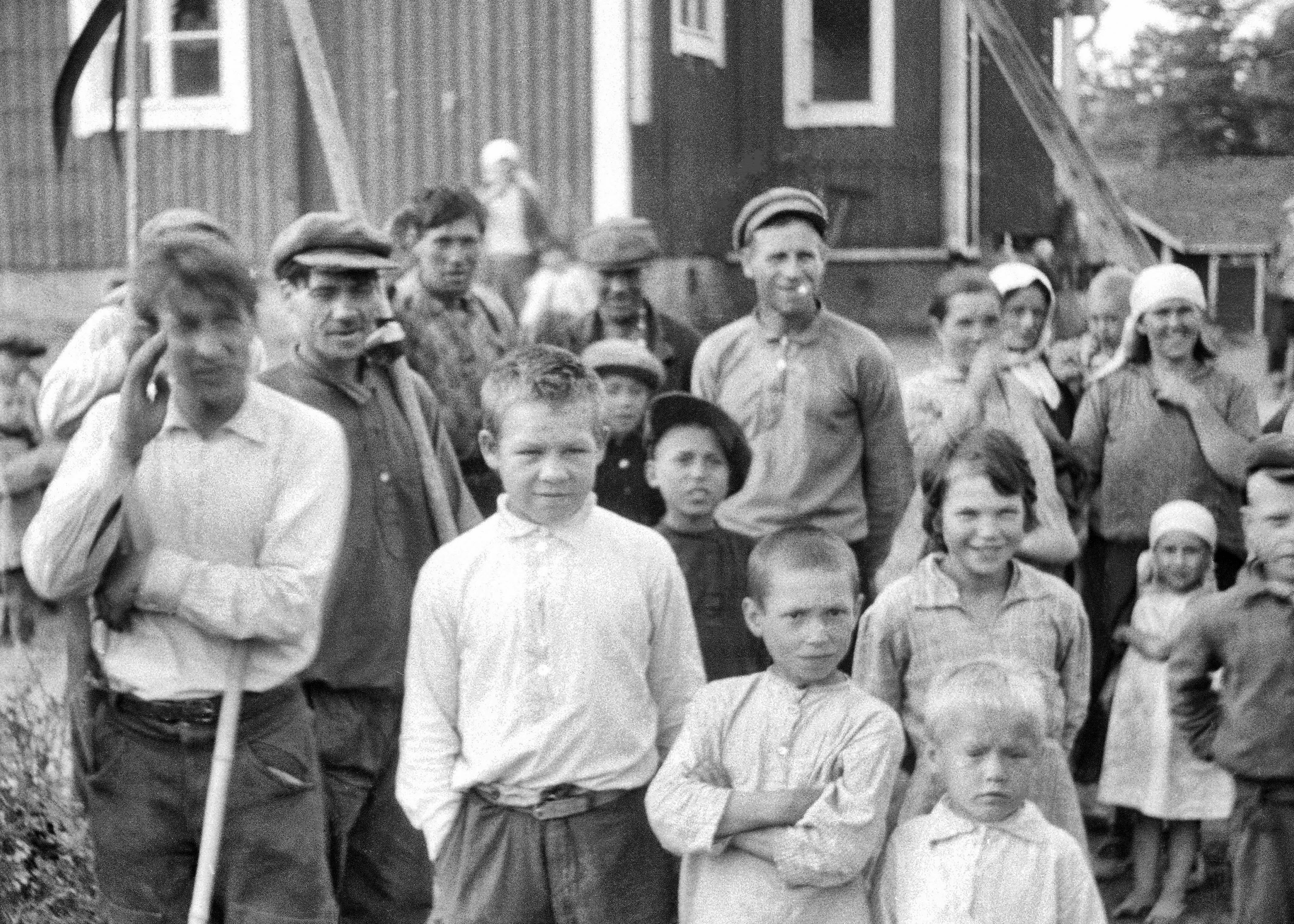 The first farmers-immigrants